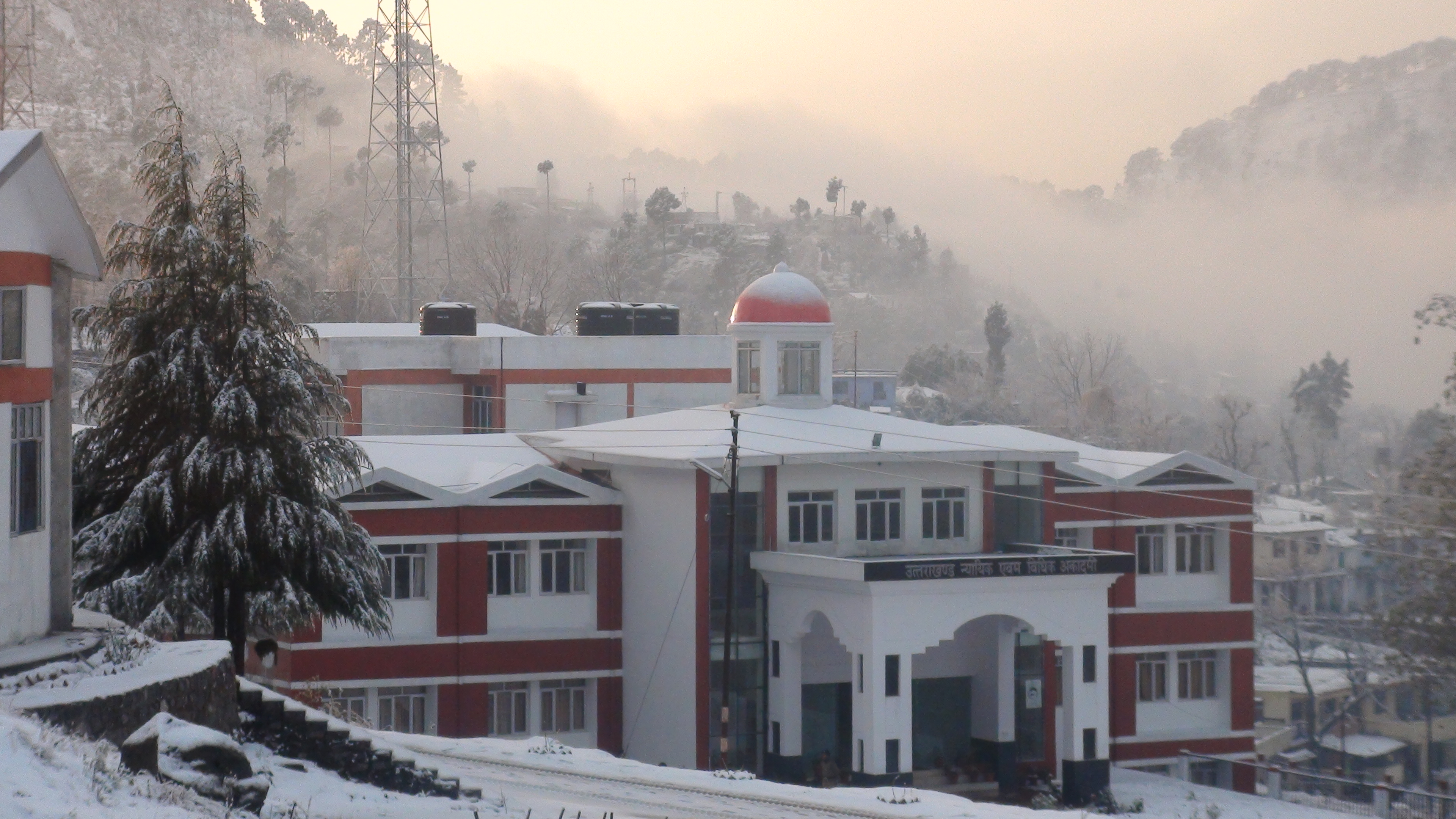 This is the main Building of Uttarakhand Judicial and Legal Academy Bhowali Nainital after snowfall.